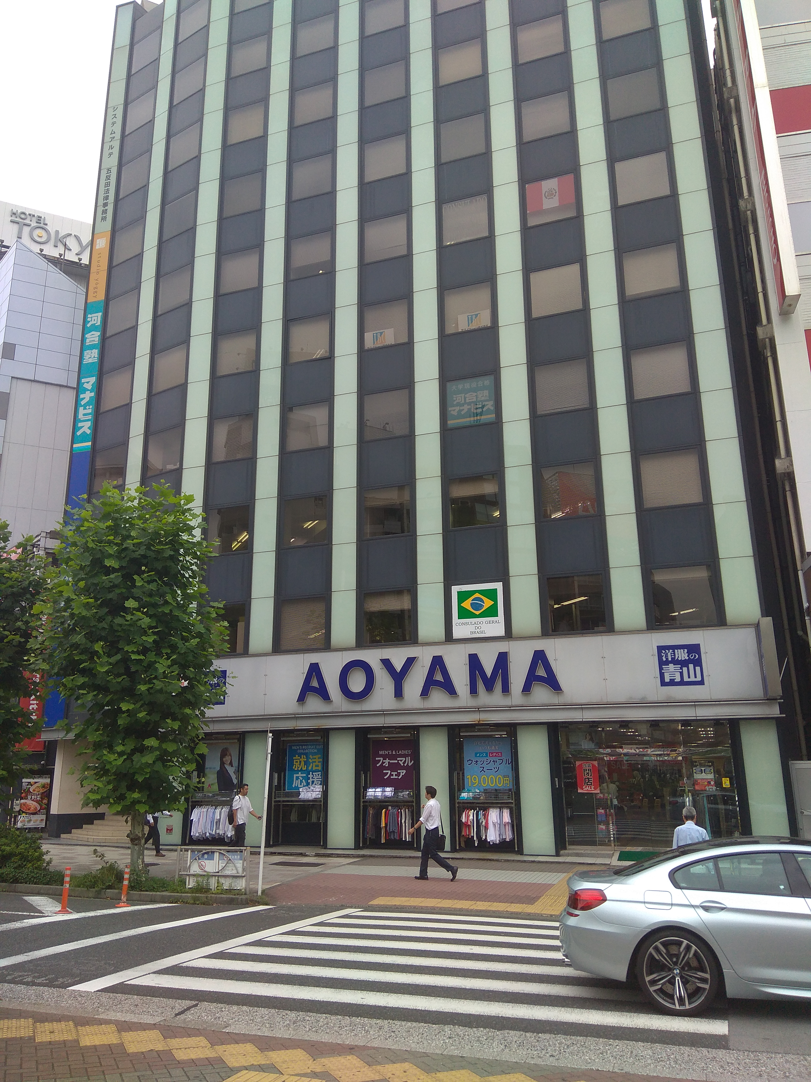 Building which hosts the consulates-general of Brazil and Peru in Tokyo